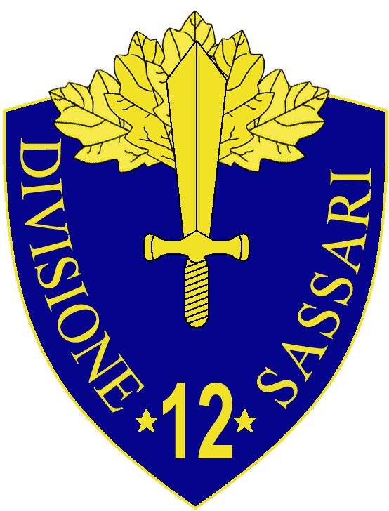 12a Divisione Fanteria Sassari insignia, Regio Esercito, Italy, WWII